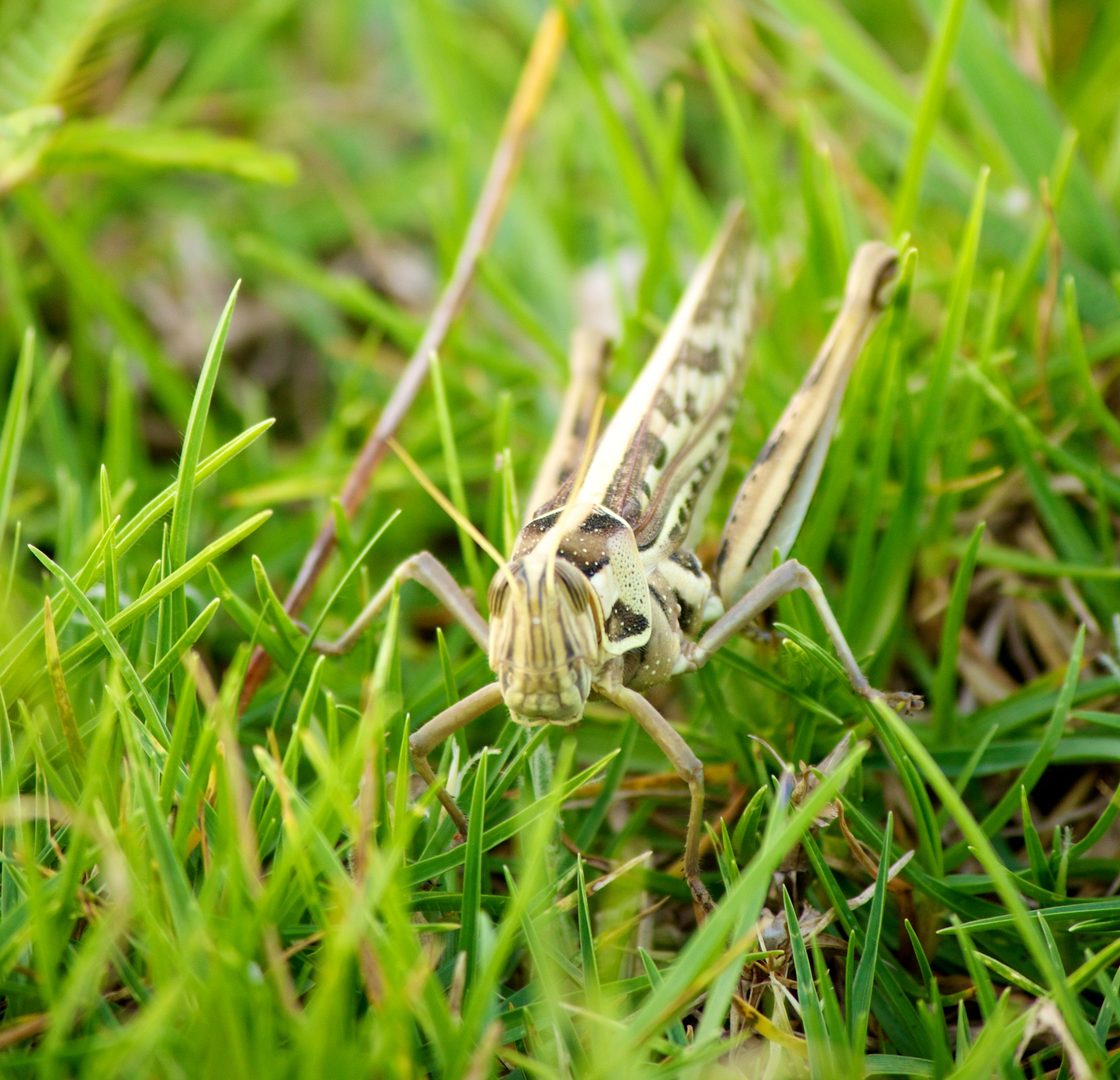 Large solitary Locust